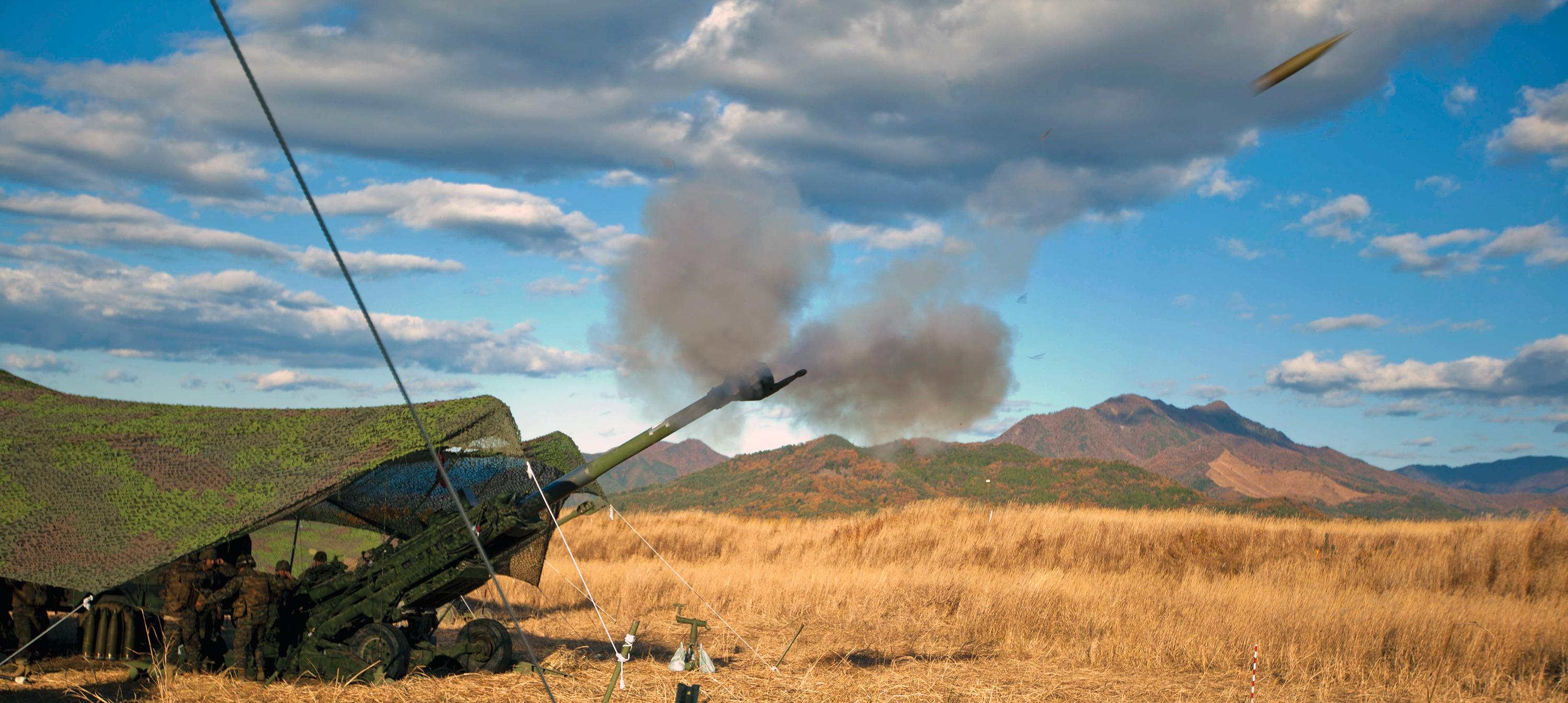 Marines fire an M777A2 155 mm howitzer during a demonstration for local government officials and media at the North Fuji Maneuver Area, Shizuoka prefecture, Japan. United States Marine Corps